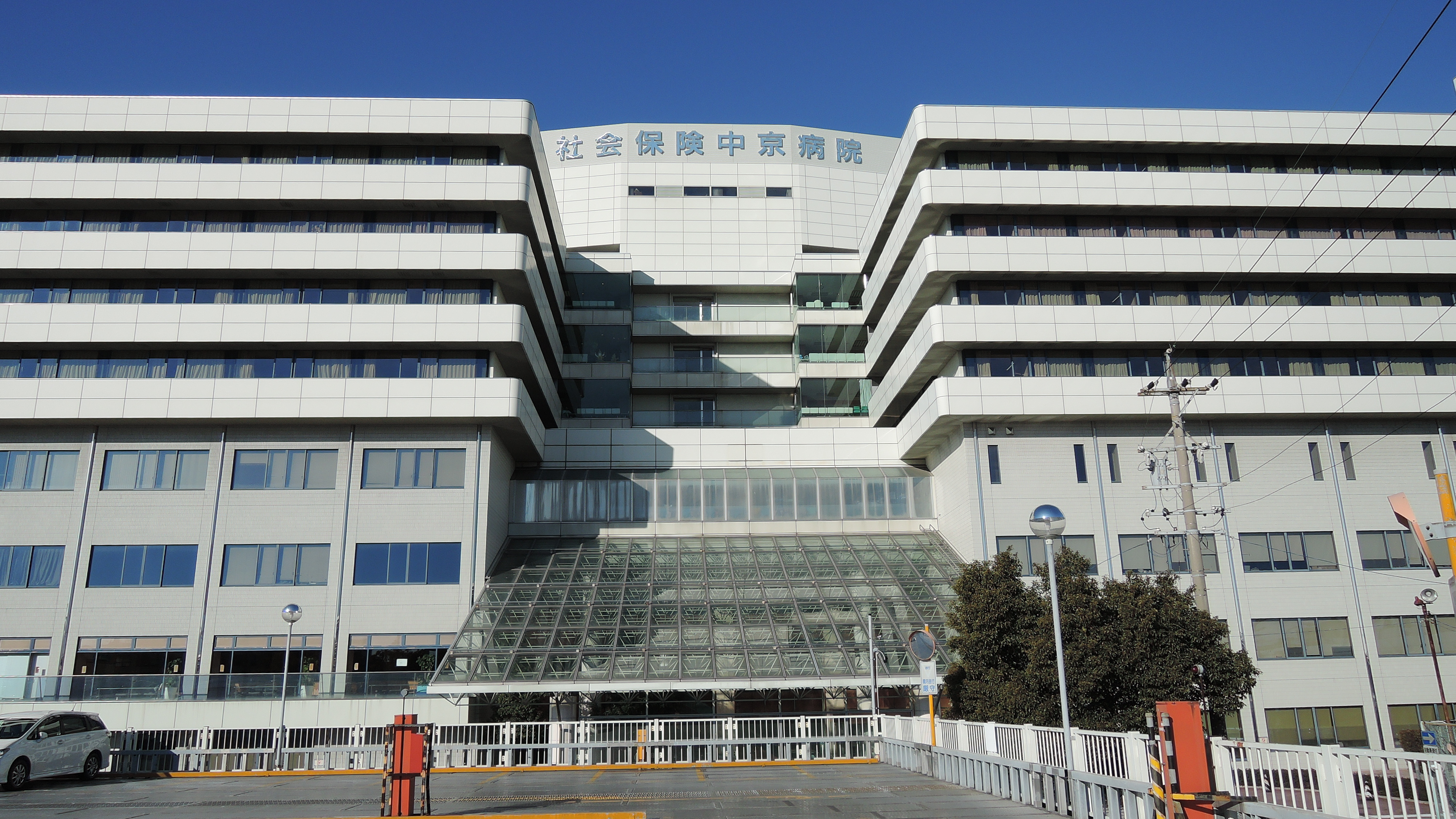 Social Insurance Chukyo Hospital,Aichi prefecture, Japan